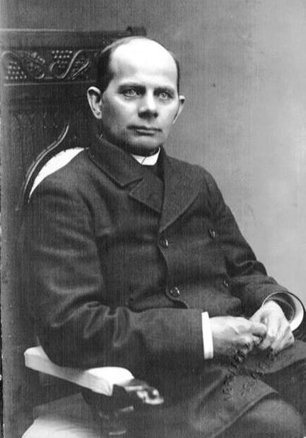 Niels Dael (1857-1951), Danish priest and educator